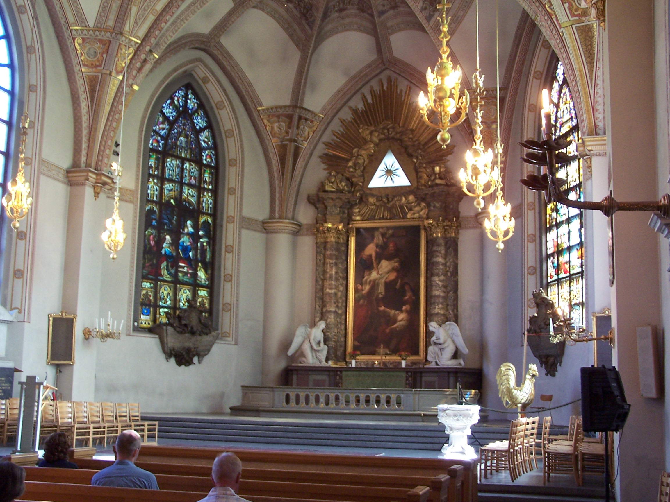 Klara kyrka (Klara church), Stockholm, Sweden - The Sancturary with altar and baptismal font.